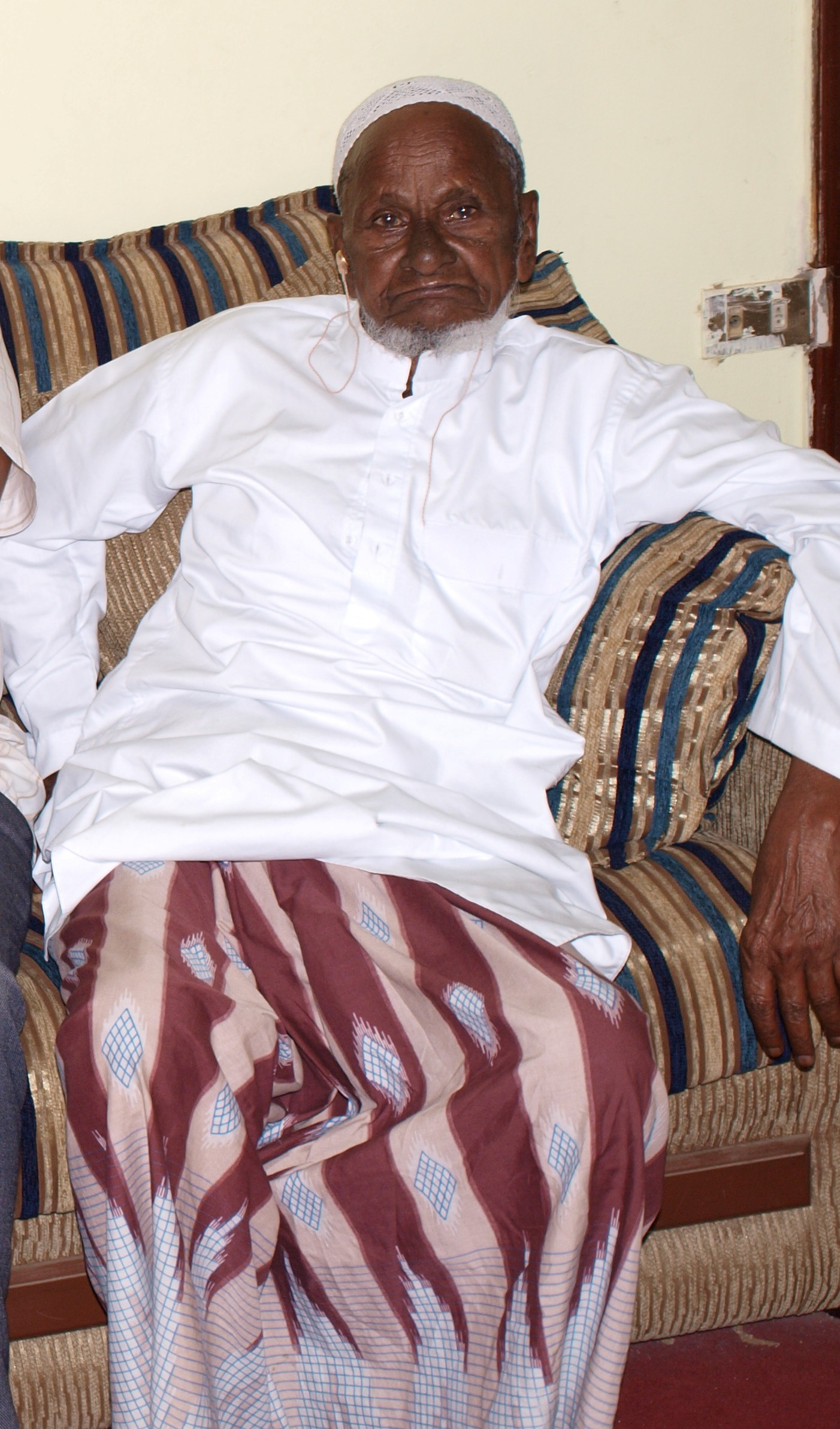 Hashim Ansari, the oldest litigant in the Babri Masjid case